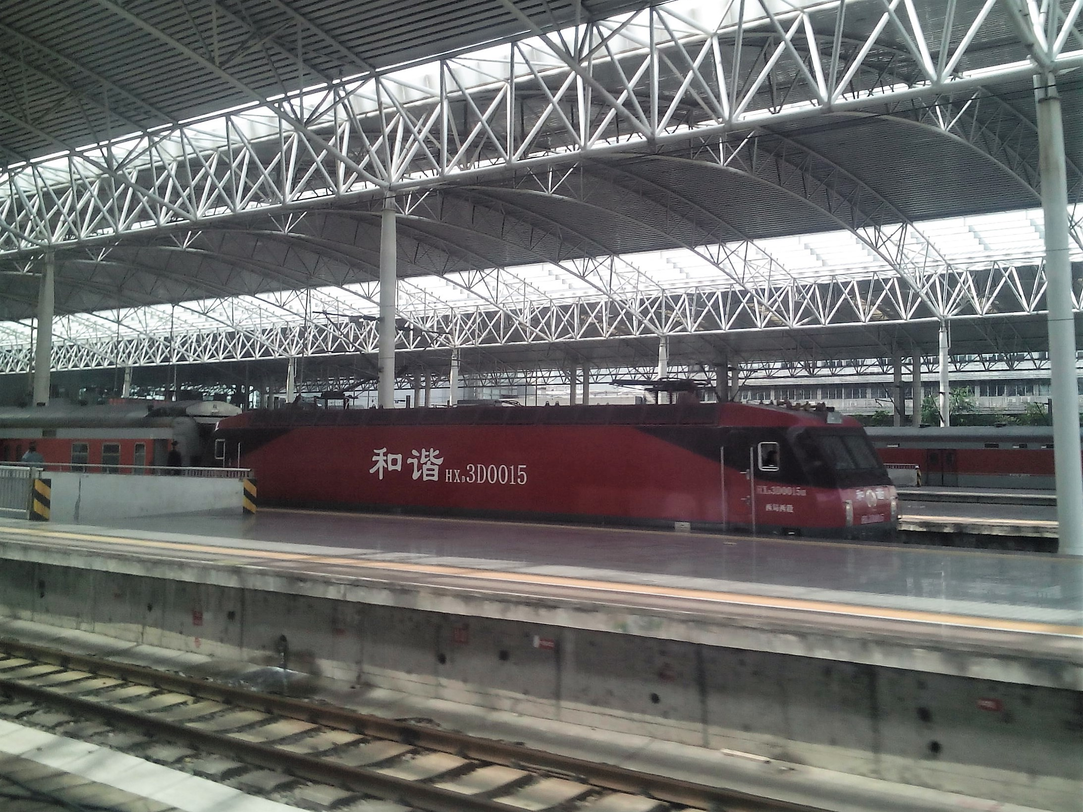 Shanghai - Xi'an portion used to be hauled by a Xi'an-based HXD3D.